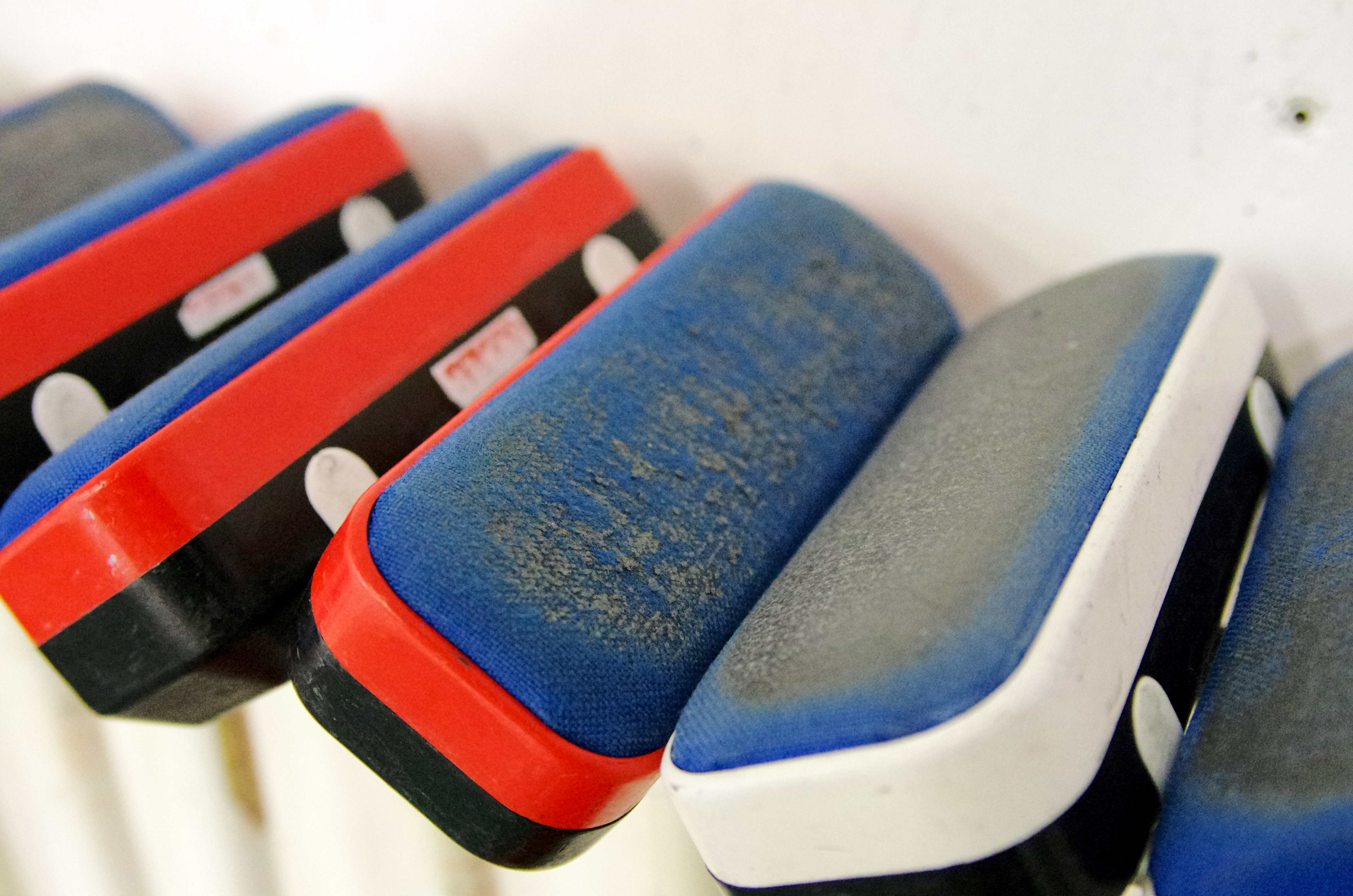 Swisscurling League 2012/2013 - Round 2 - Geneva